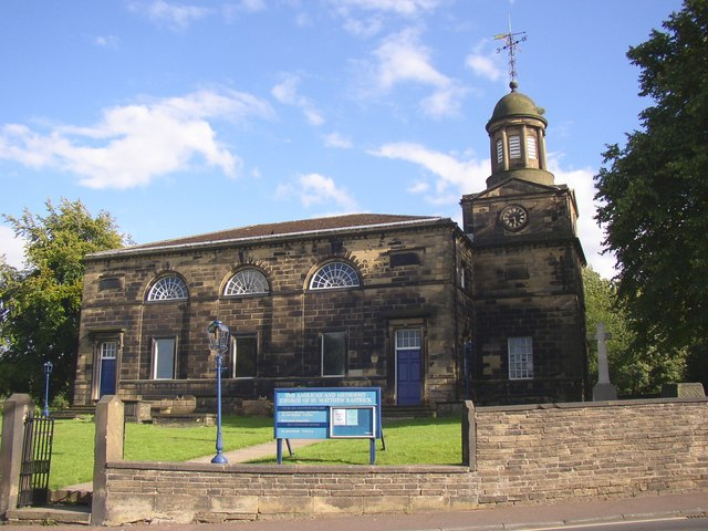 Anglican and Methodist Church of St Matthew, Rastrick Rastrick was in the vast parish of Halifax. A chapel was first built about the end of the 14C, but it was suppressed c.1547 and became used as a barn in 1578. It was restored and enlarged in 1605. Rastrick became an ecclesiastical parish in 1720, but this was abolished in 1724 when Rastrick became part of Elland parish. The chapel was rebuilt c.1797 in same style as Lightcliffe old church. Rastrick finally became an independent parish in 1881. The Methodists have shared the building since 1970, when their chapel at Carr Green in Crowtrees Road became unsafe and had to be demolished. Since Easter 2005 the Church has been a Local Ecumenical Partnership, where Methodists and Anglicans work and worship together, and are indistinguishably one Church.